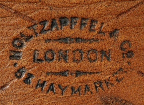 Mark of Holtzapffel & Co. stamped on the inside of the leather pouch of a travelling kit